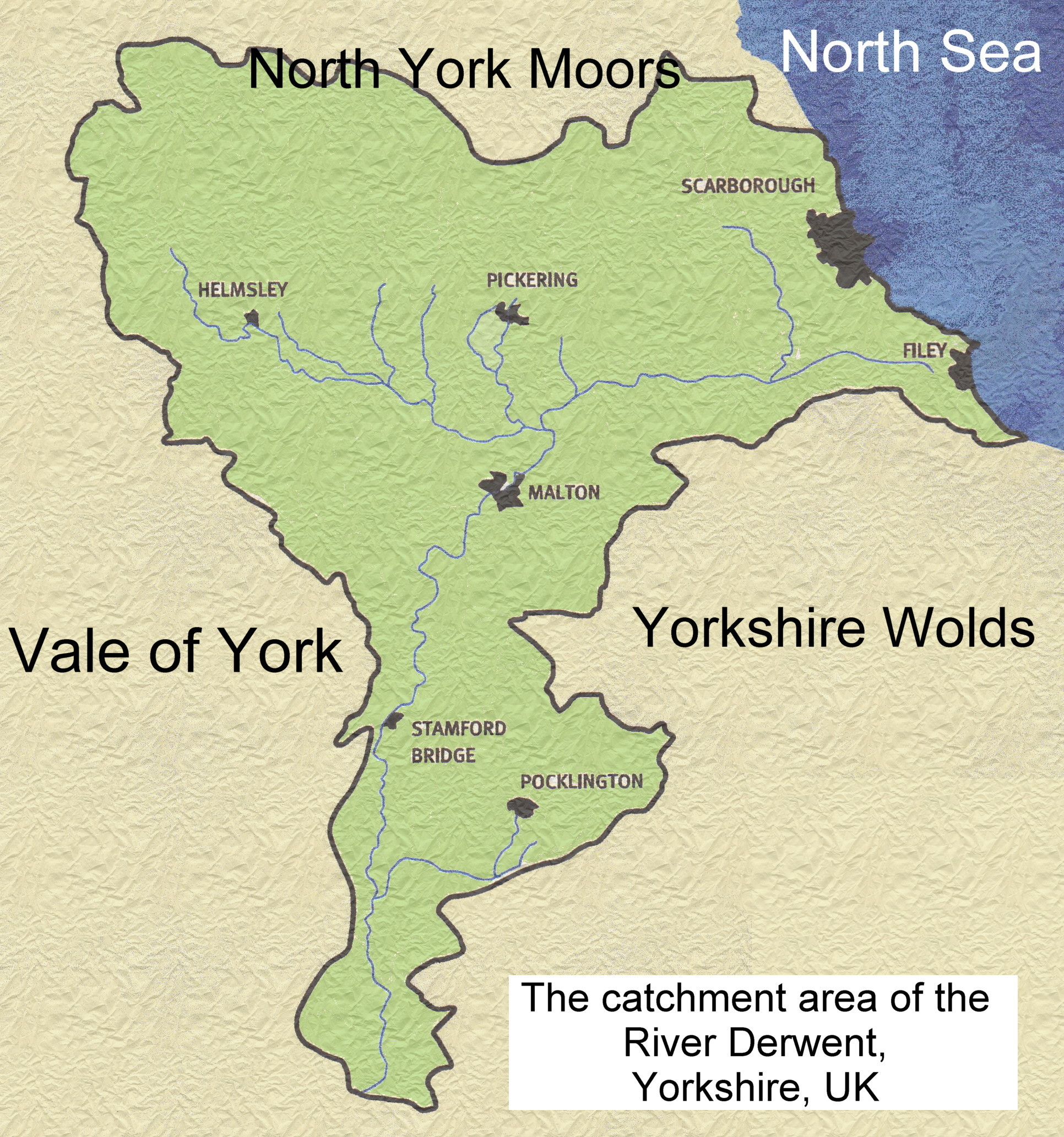 I, known on Wikipedia as Harkey Lodger, am the creator,author and copyright owner of this file.The file was created on 13-01-2007 by me in the UK. I used information from the UK environment agency to complile the drawing which I then scanned and added text and colour.